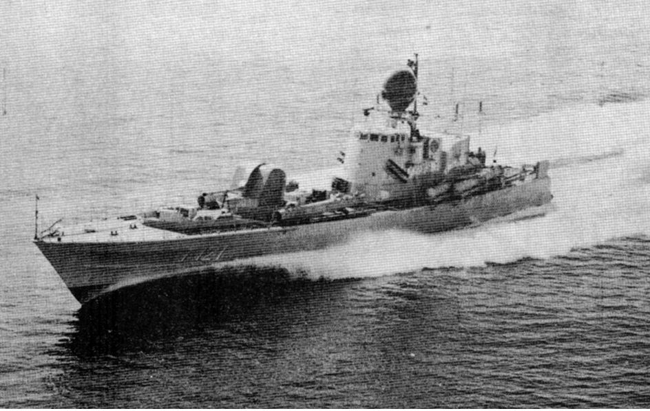 Swedish Torpedo Boat T121 "Spica" This is an image of the protected Swedish ship T121 Spica, with call sign SHBF .